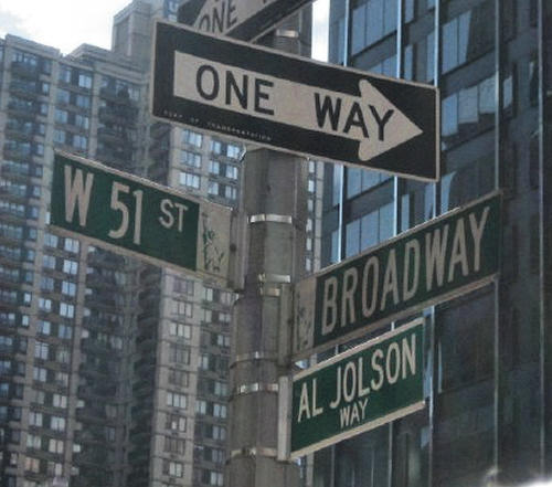 Jolson Way